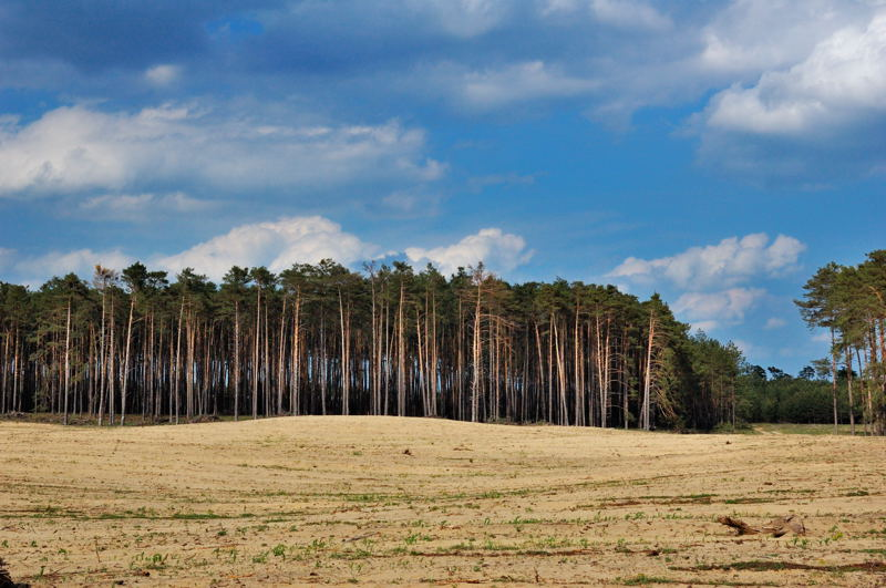 Bor lowland: pine forest growing on sand dunes